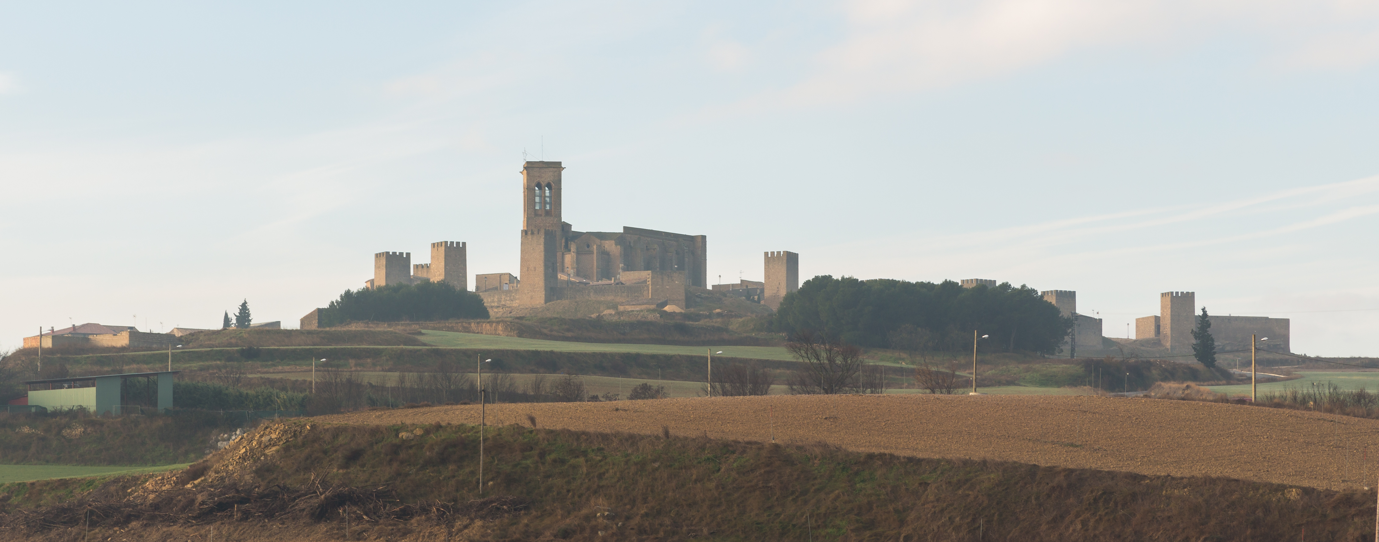 Cerco de Artajona, Navarra, Spain